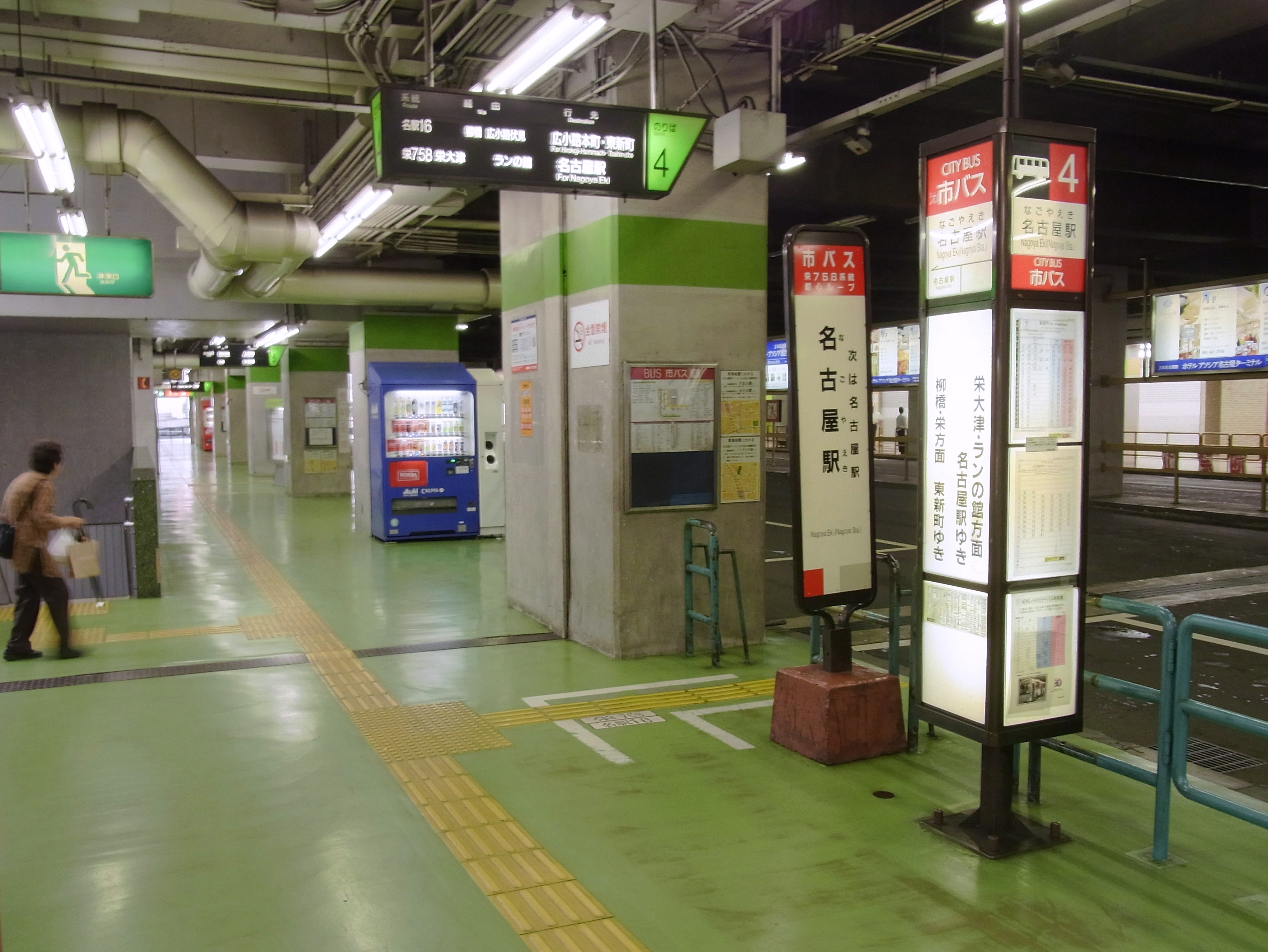 Bus stop for Nagoya City Bus at Nagoya Sation Bus Terminal